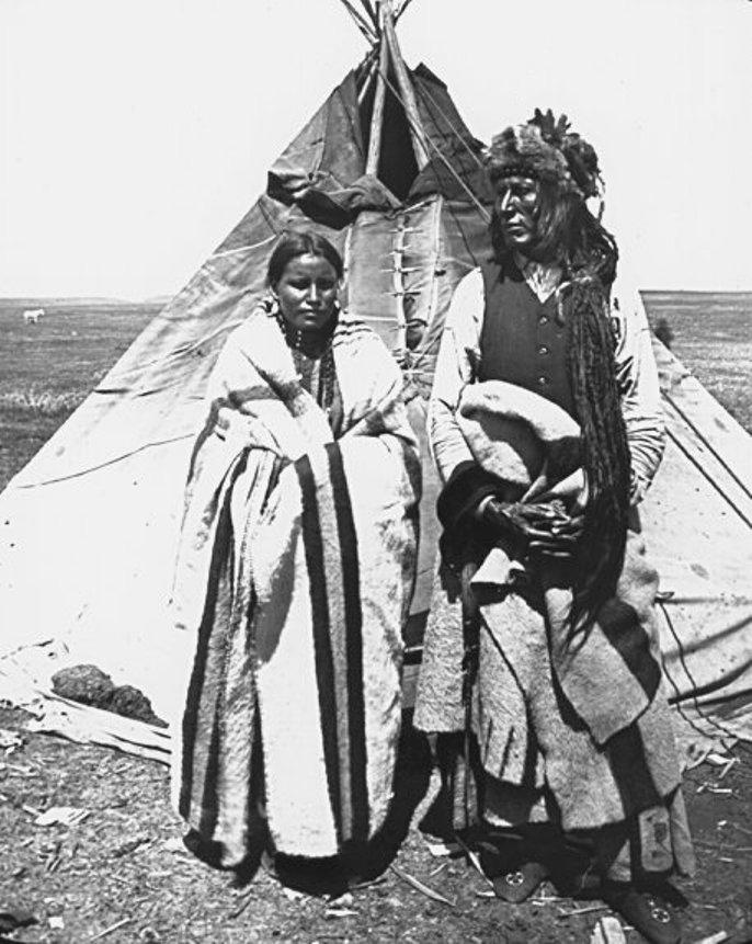 Pitikwahanapiwiyin (c. 1842 – 4 July 1886), commonly known as Poundmaker, was a Plains Cree chief known as a peacemaker and defender of his people.